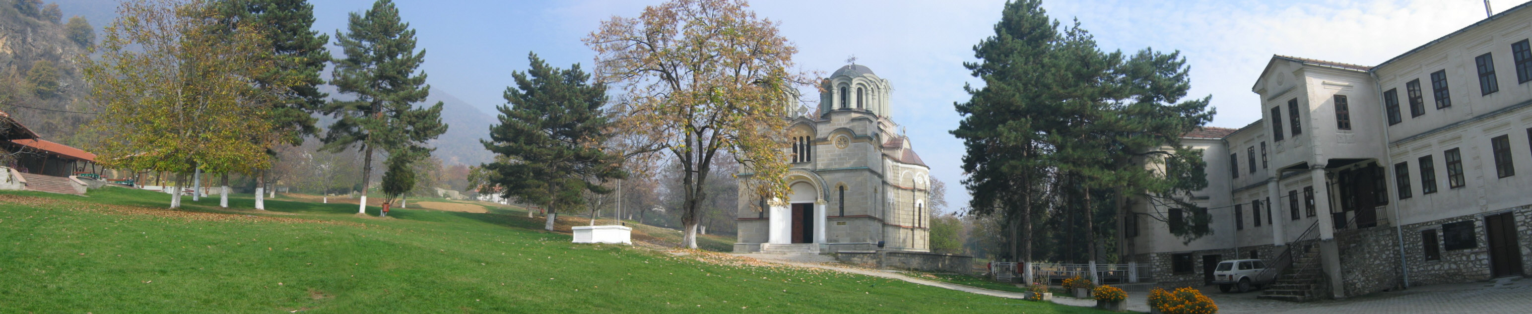 Lešok Monastery, Macedonia